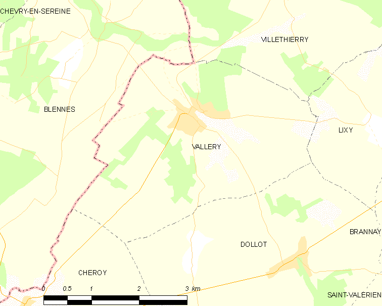 Map of French municipality Vallery